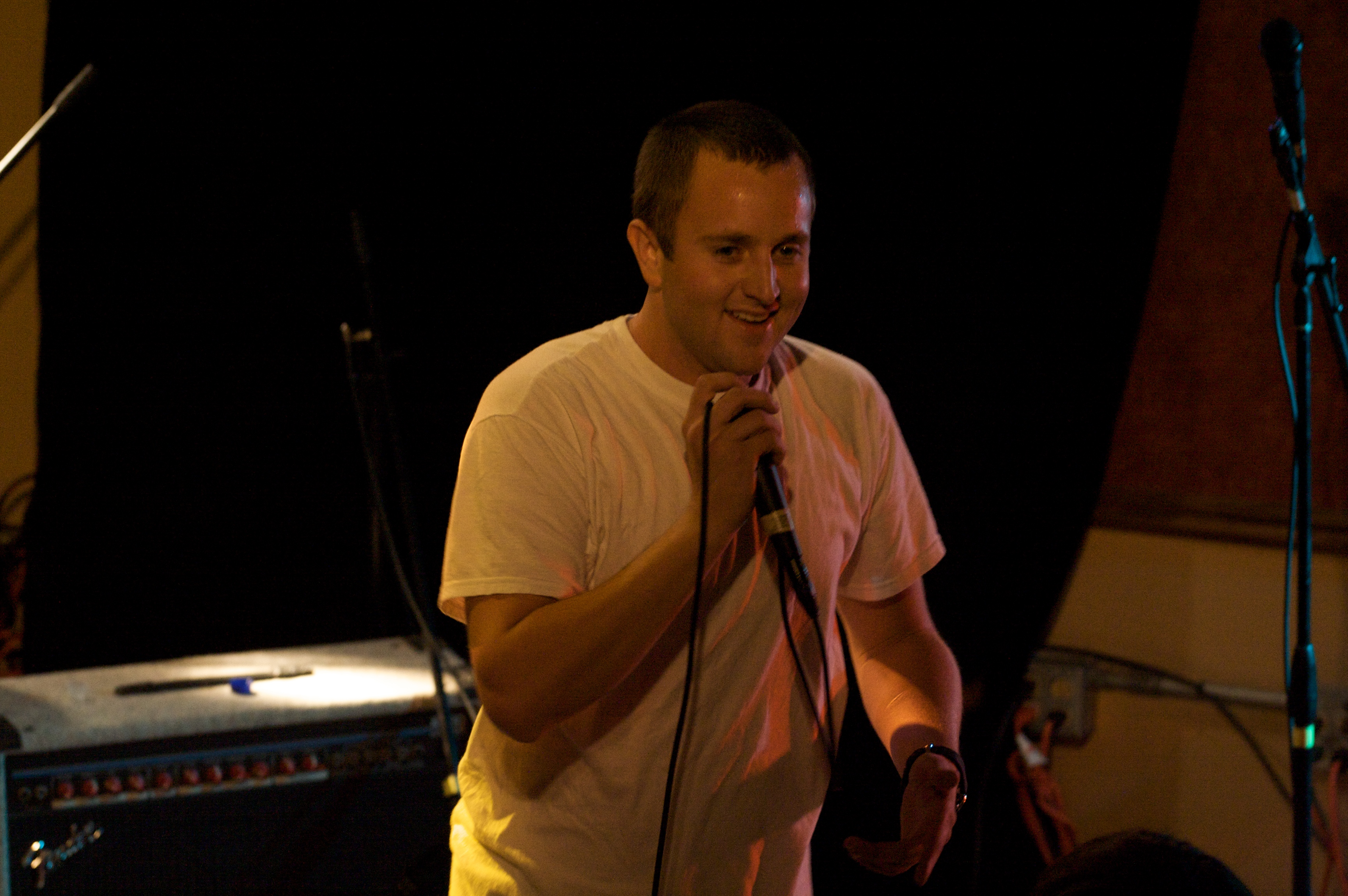 Minnesotan rapper Sims performing at the Old #1 as part of the University of Minnesota Morris's HomeKUMMing.